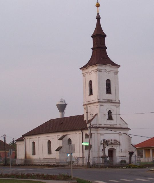 Greek catholic church in Szakoly, Hungary